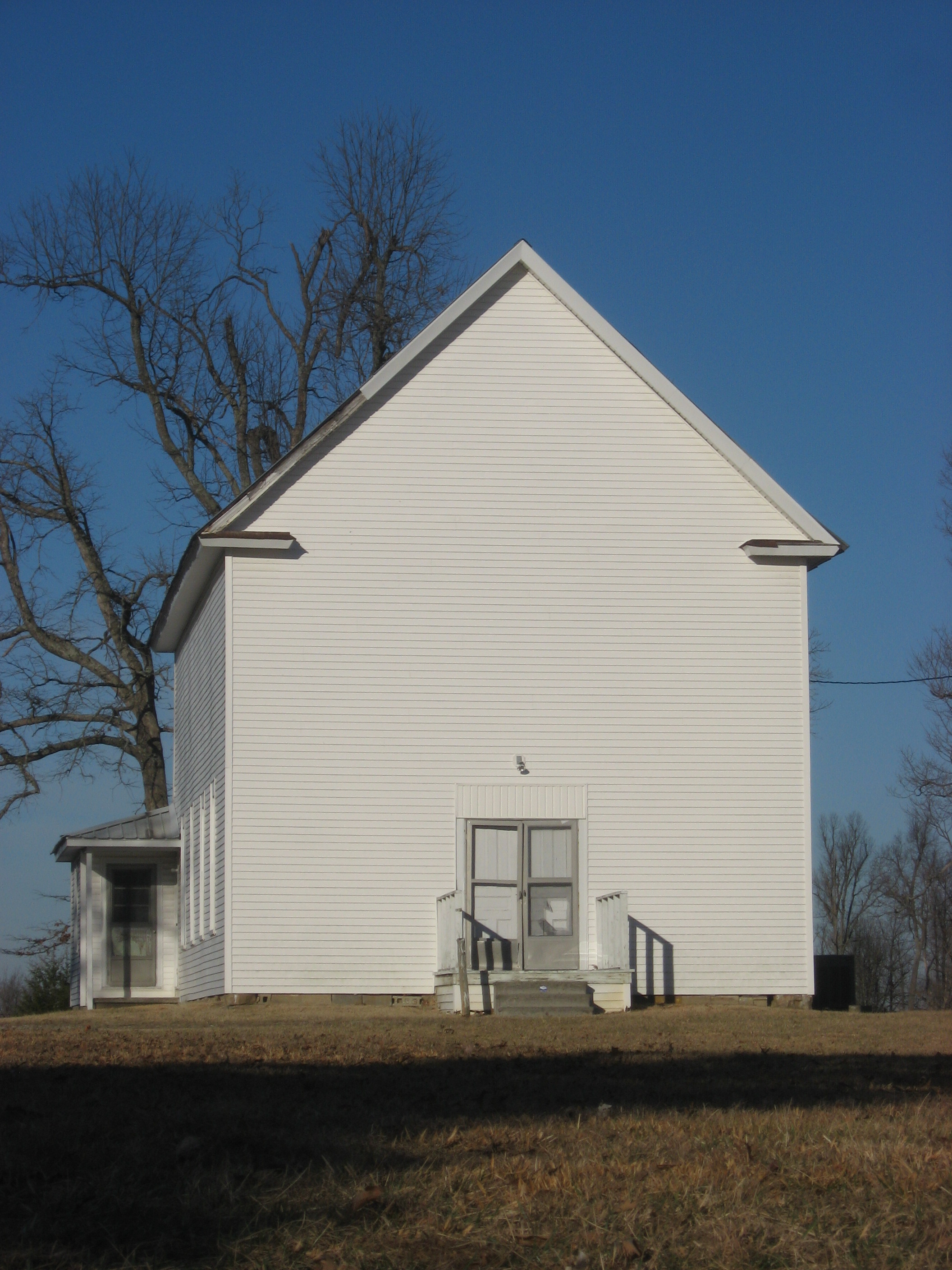 Front of the Beulah Lodge, located off the northern side of Kentucky Route 70 in northern Hopkins County, Kentucky, United States. Built in 1908, it is listed on the National Register of Historic Places.